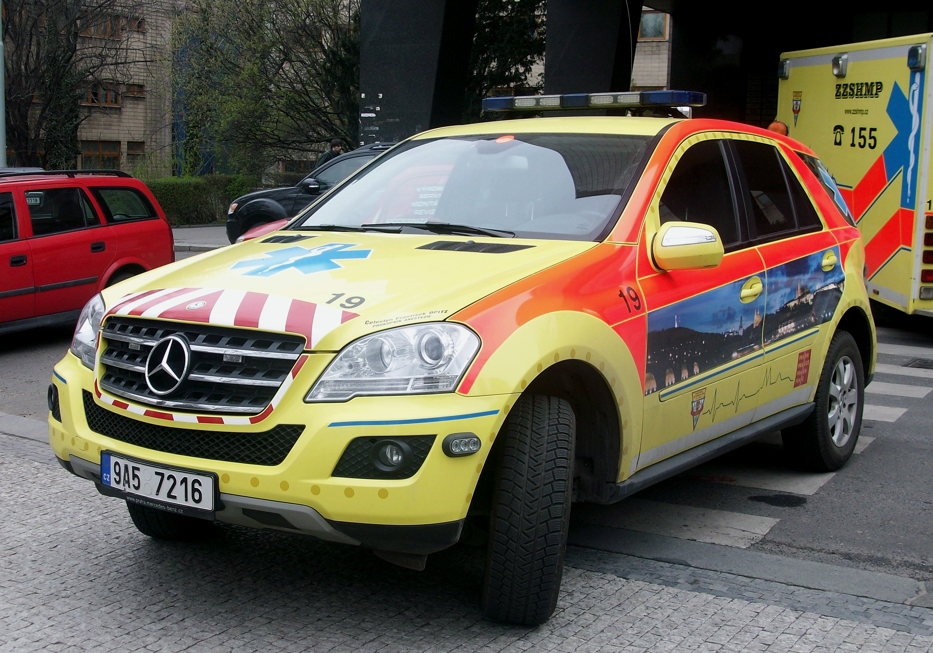 Mercedes-Benz W164 ambulance in Prague